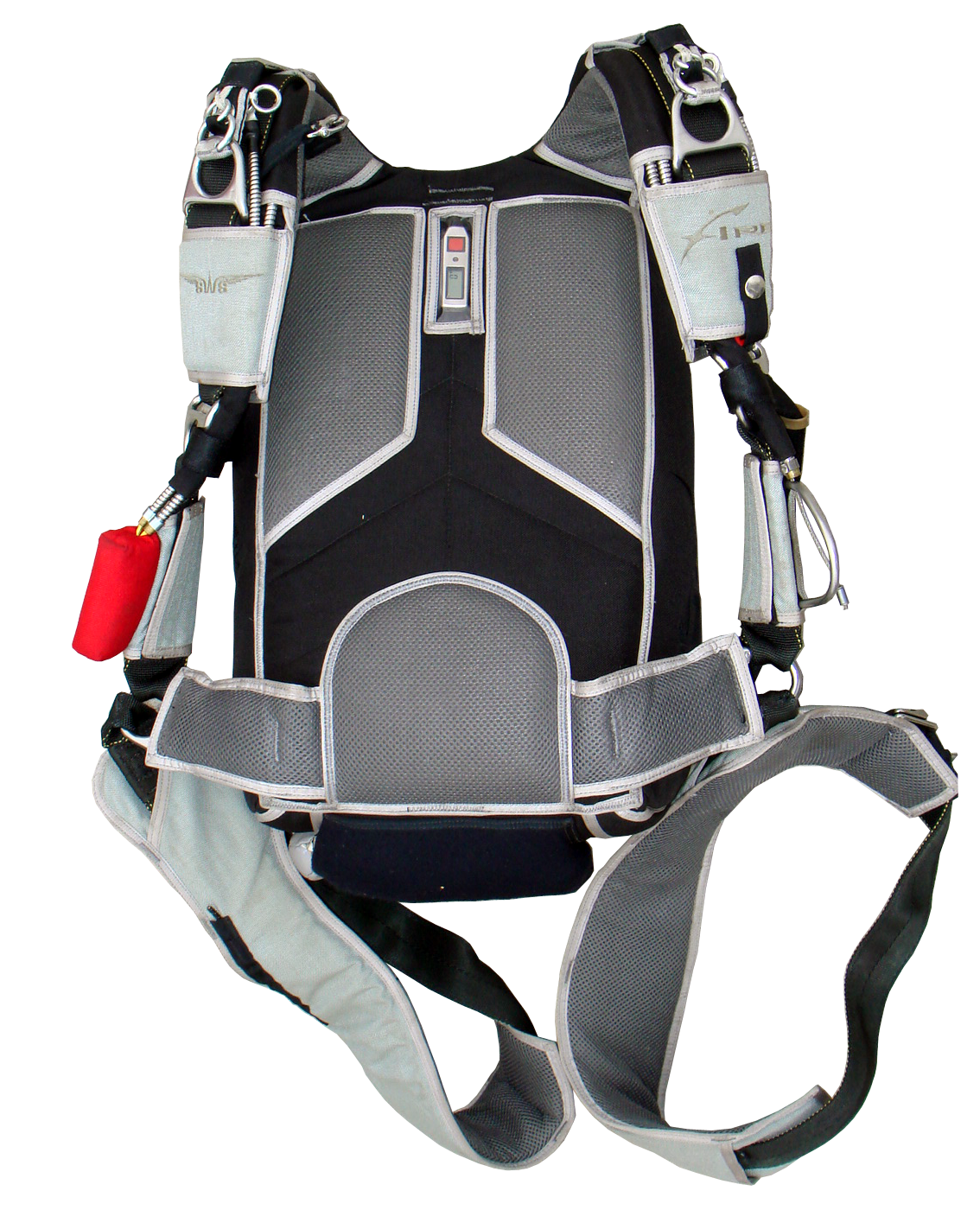 Parachute backpack - front view